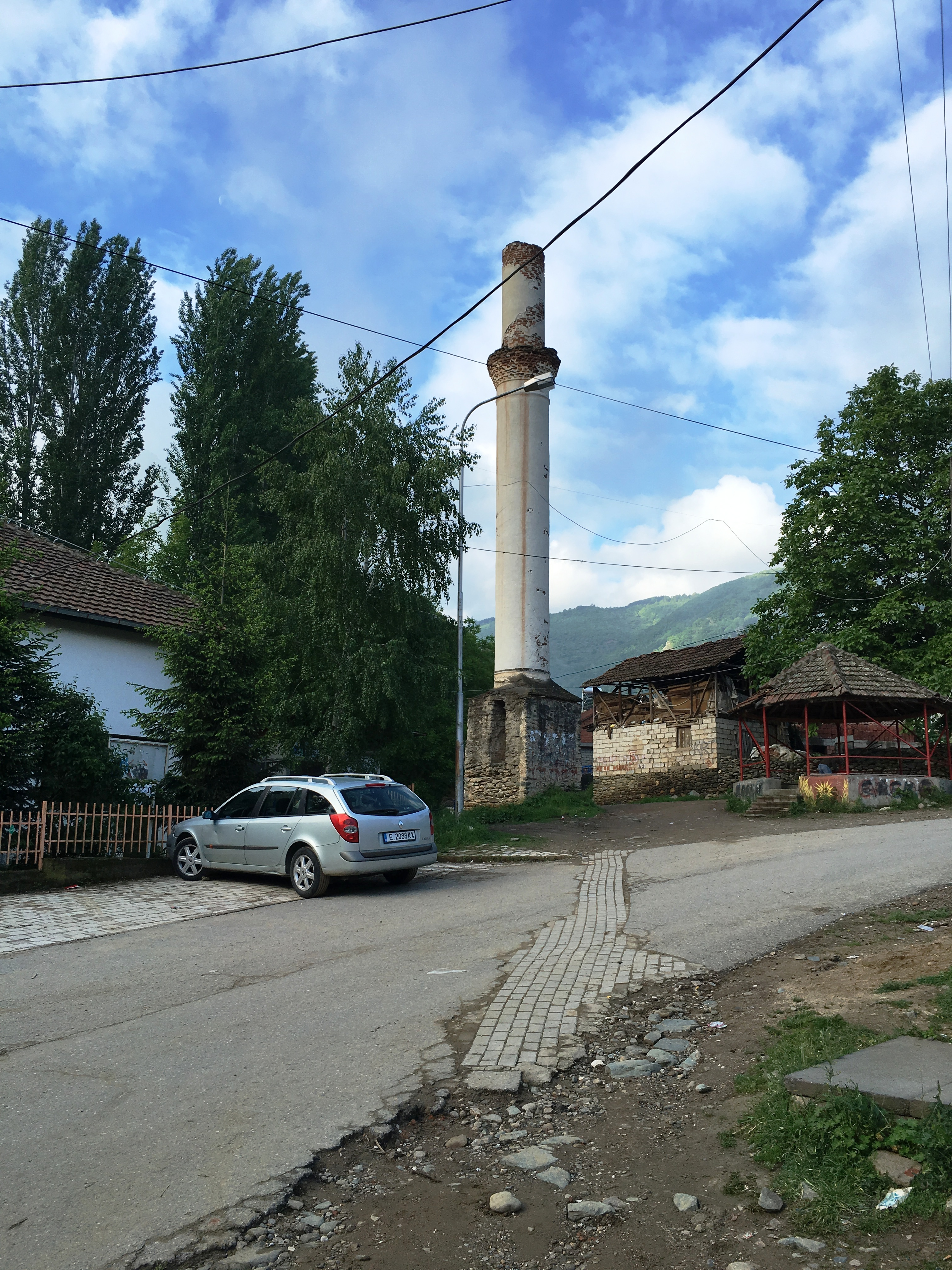 Remnants of a minaret in the village of Gradec, Vinica, Macedonia.